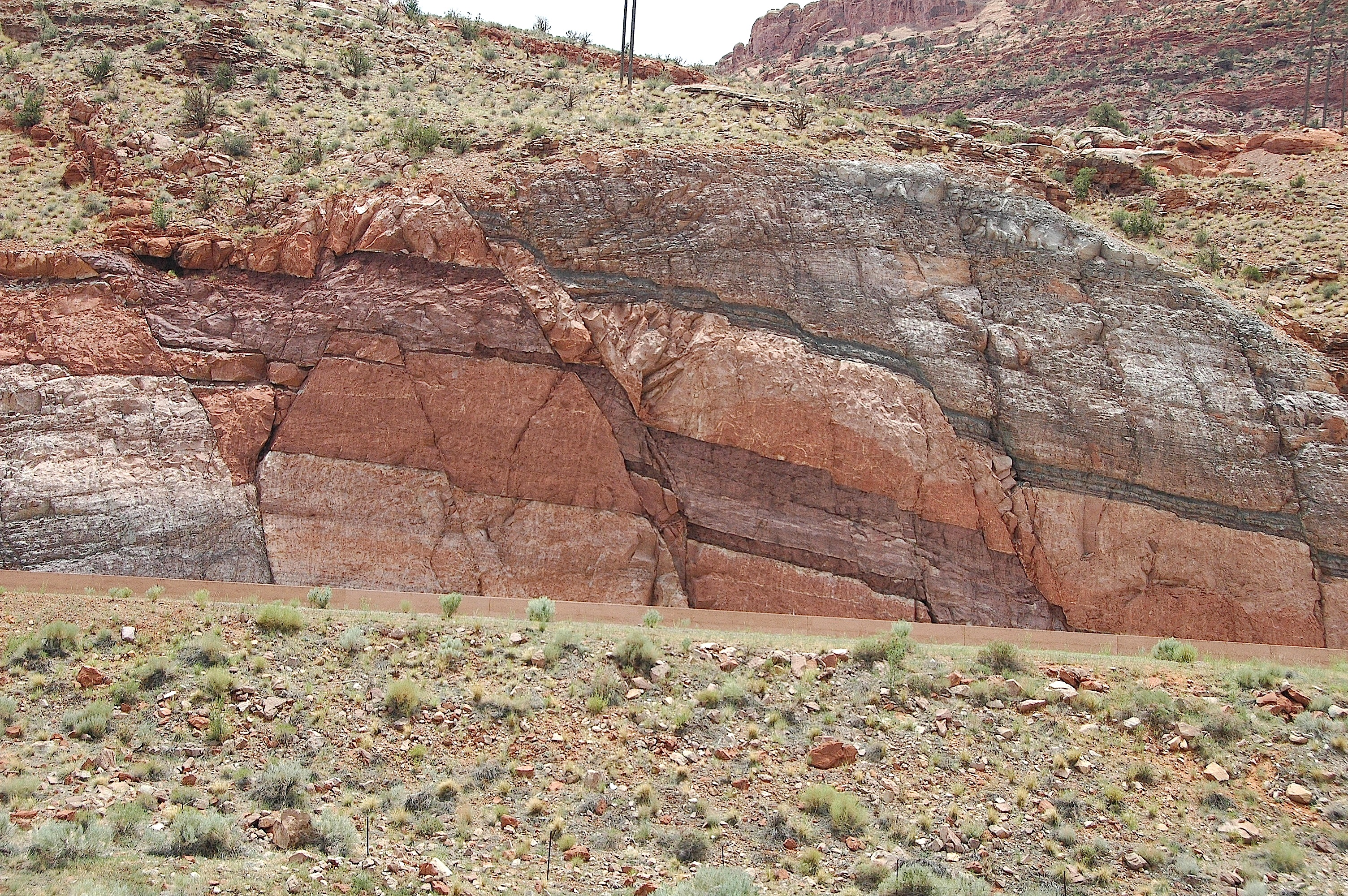 This image shows one of the only outcrops of the Pennsylvanian Period Honaker Trail Formation that may be viewed in the vicinity of Moab. In this setting the Honaker Trail Formation serves as the base of a strata graphic sequence which form the cliffs that occur on the west side of the Moab valley. This outcrop occurs across highway 191, immediately opposite and directly south of, the visitor center parking lot at Arches National Park. The Honaker Trail Formation underlies the visible strata throughout the area, but is buried and impossible to view elsewhere in the near vicinity of Moab. The fault and the road cut for highway 191 provide a rare circumstance where visitors to Moab, Arches National Park, and Canyonlands National Park may see this approximately 300 miilion year old Pennsylvanian Period layer of rock. sources: 1) 2)